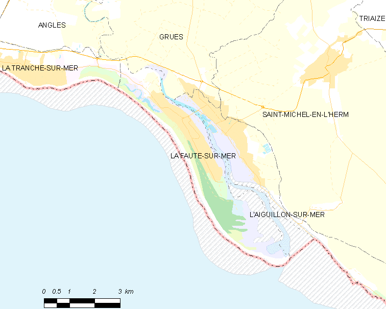 Map of French municipality La Faute-sur-Mer